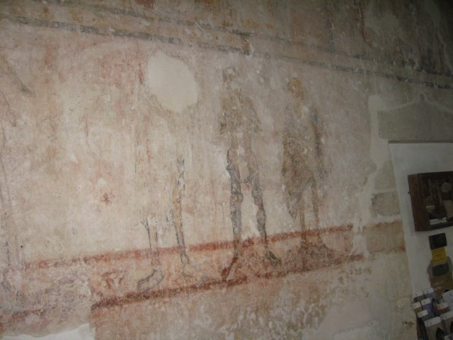 Part of a 14th-century mural in Saint Mary the Virgin parish church, Tarrant Crawford, Dorset